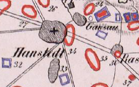 Prehistoric tombs near Hanstedt II